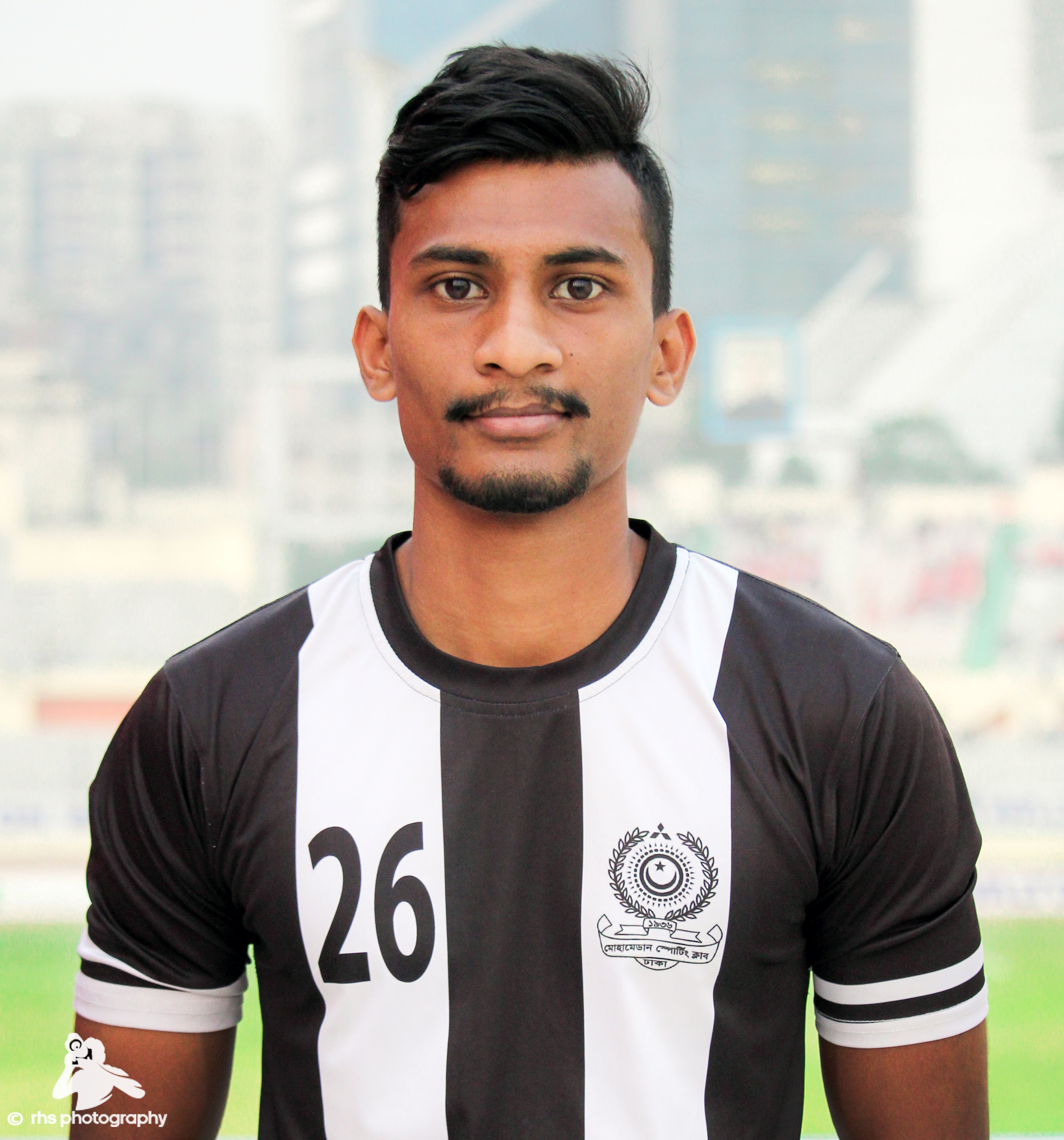 Dhaka Mohammedan SC footballer Mohammed Abid Hossain poses for a portrait at Bangabandhu National Stadium.